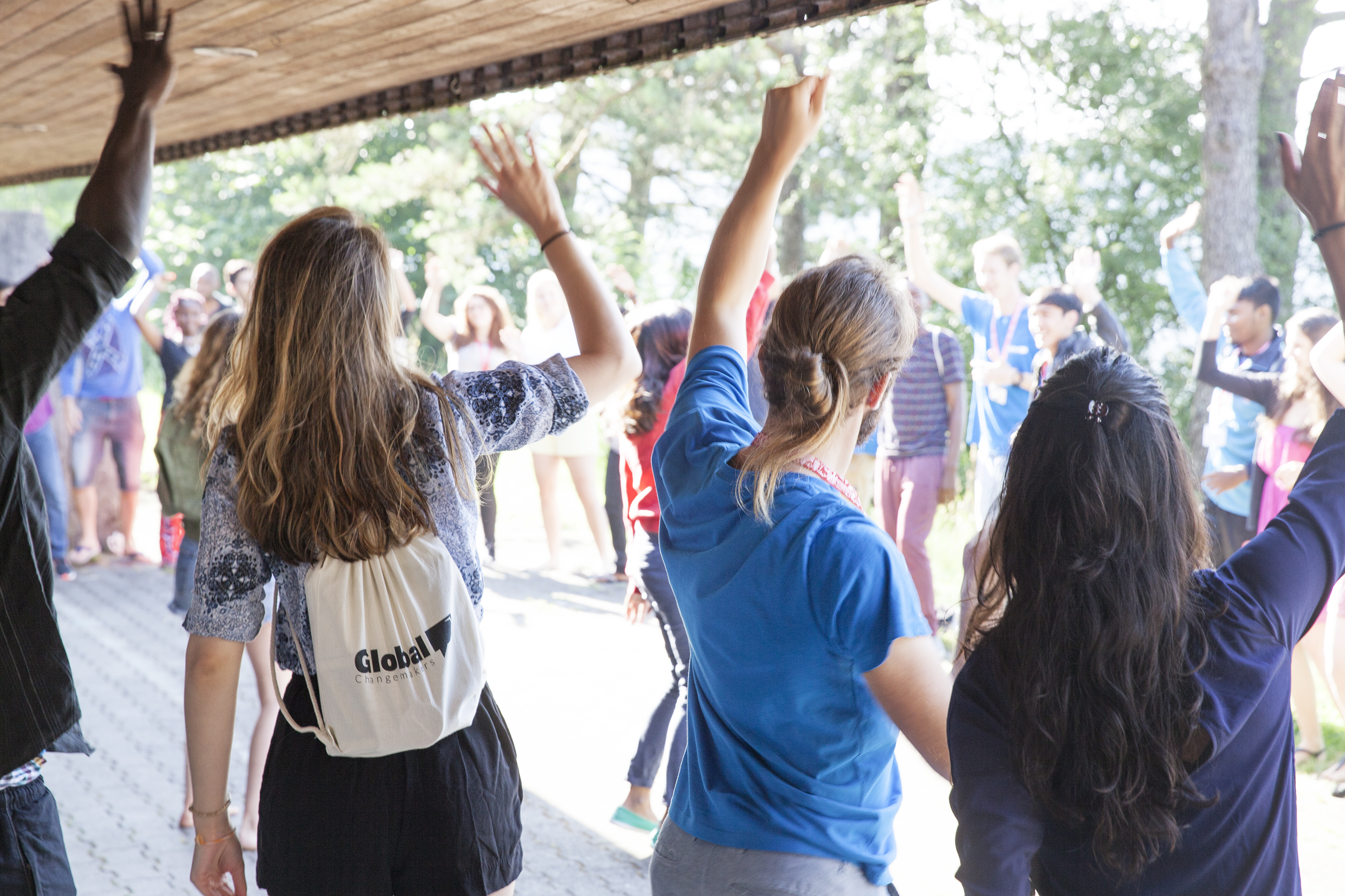 An image of the Global Changemakers 2016 cohort raising their hands at the Global Youth Summit 2016.